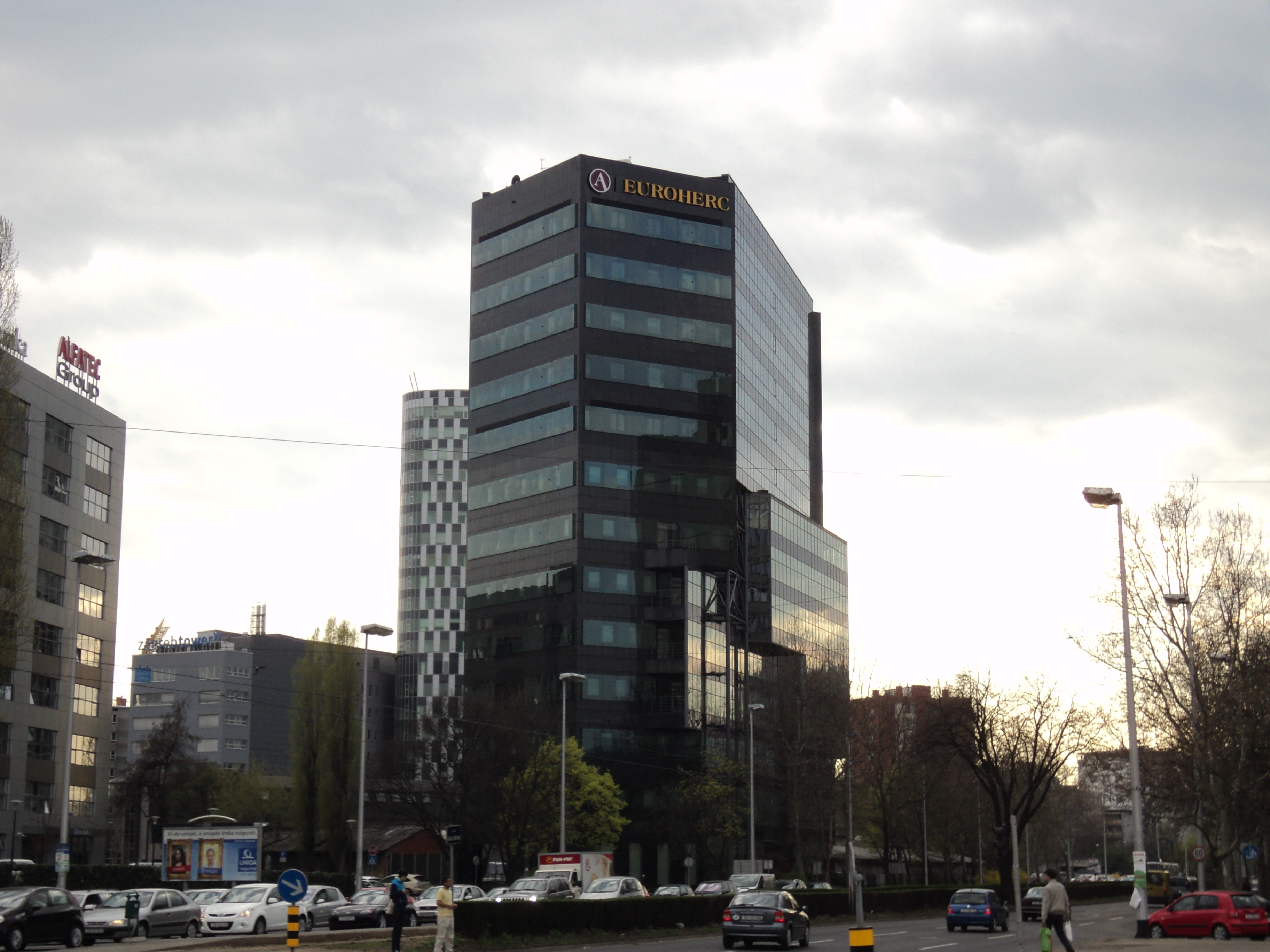 Euroherc tower in Zagreb.